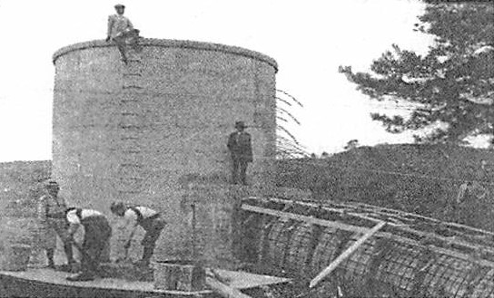 A surge tank of the Ishioka I power station which is under construction.